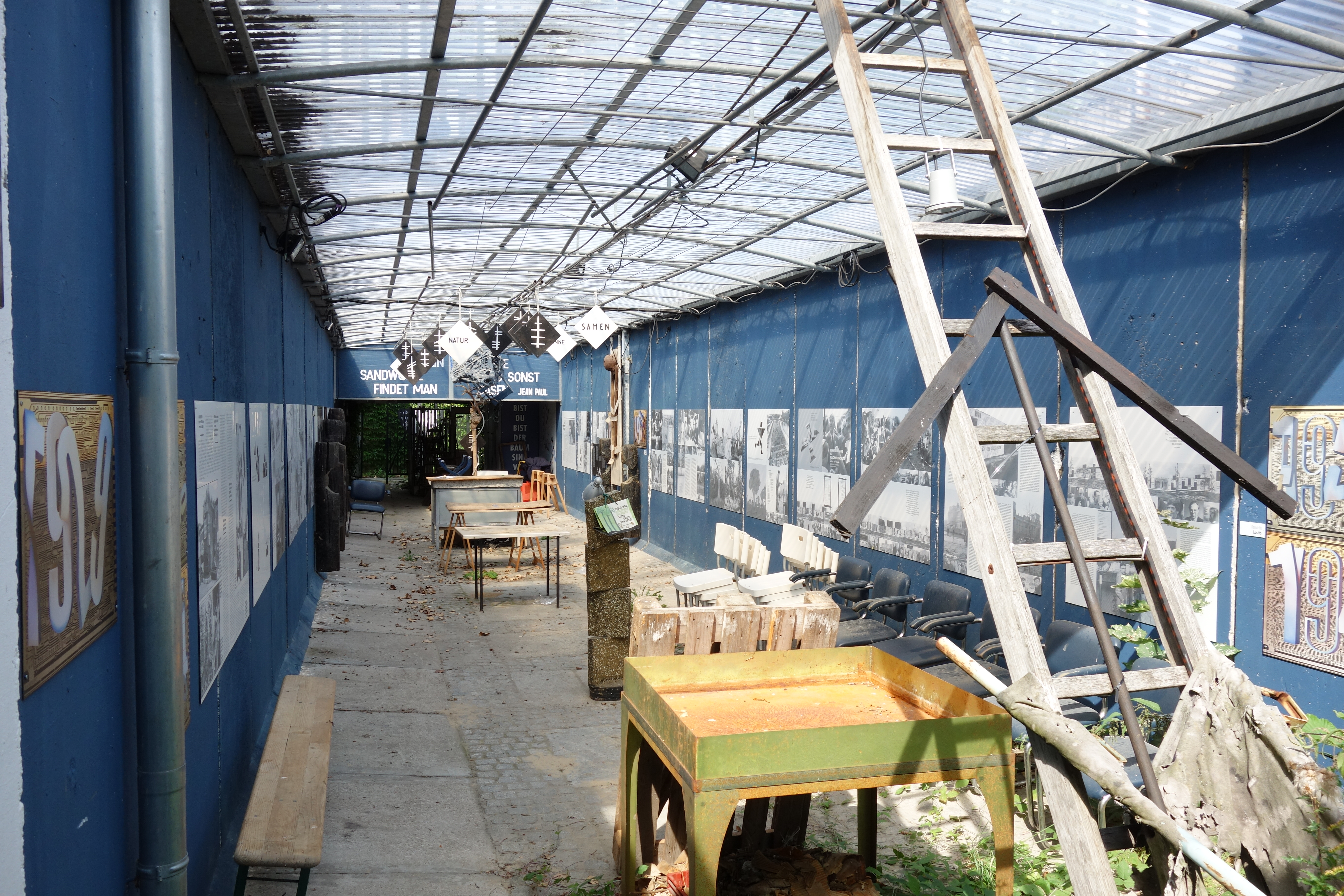 Part of installation by various artists inbetween the two pieces of the former Berlin Wall